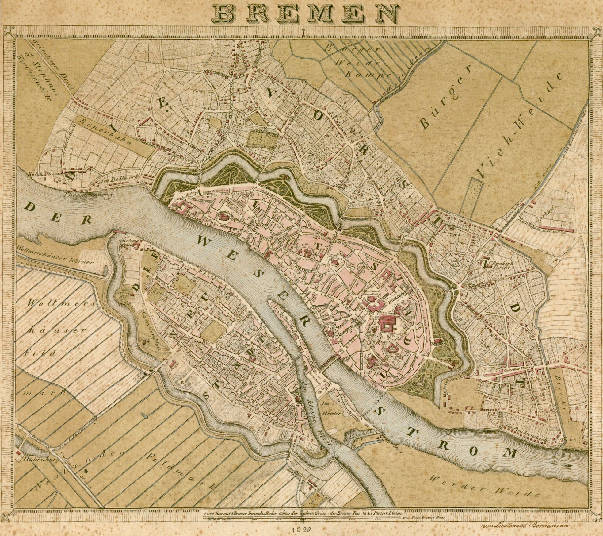 Map of Bremen city and its suburbs from 1829.